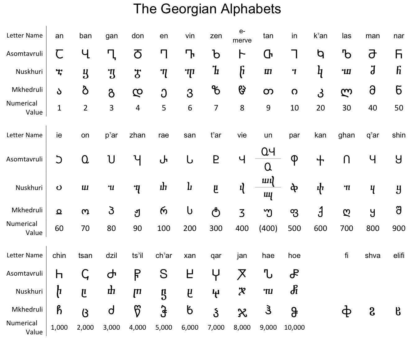 Georgian alphabets (Asomtavruli, Nuskhuri, Mkhedruli), romanized Georgian names, and numerical values in a three-tiered chart